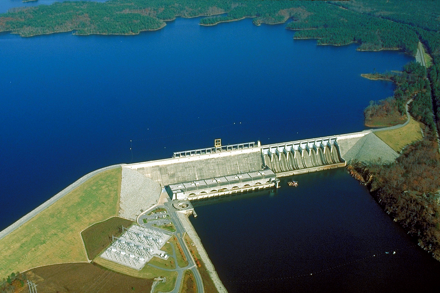 Richard B. Russell Dam and Lake on the Savannah River, spanning the border between Elbert County, Georgia and Abbeville County, South Carolina. The dam was constructed by the U.S. Army Corps of Engineers for flood control on the Savannah River. Coordinates: 34°1′32.28″N 82°35′49.73″W / 34.0256333°N 82.5971472°W